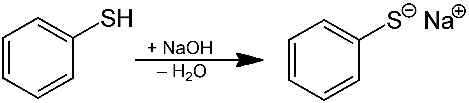 Thiophenolat_Synthesis